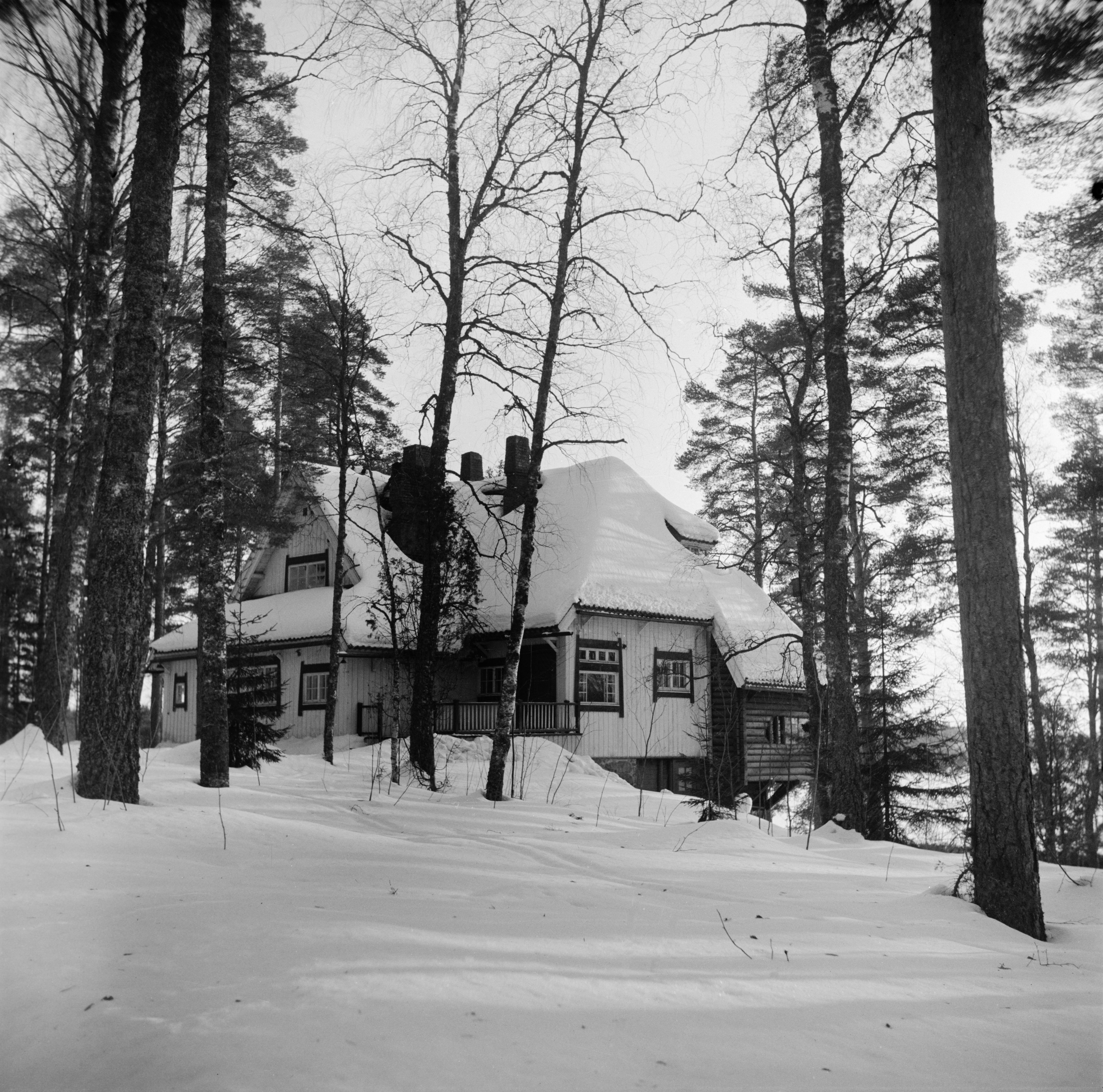 Santeri Levas: Ainola (designed by architect Lars Sonck), 1940-1945, Järvenpää. Digitized original negative.